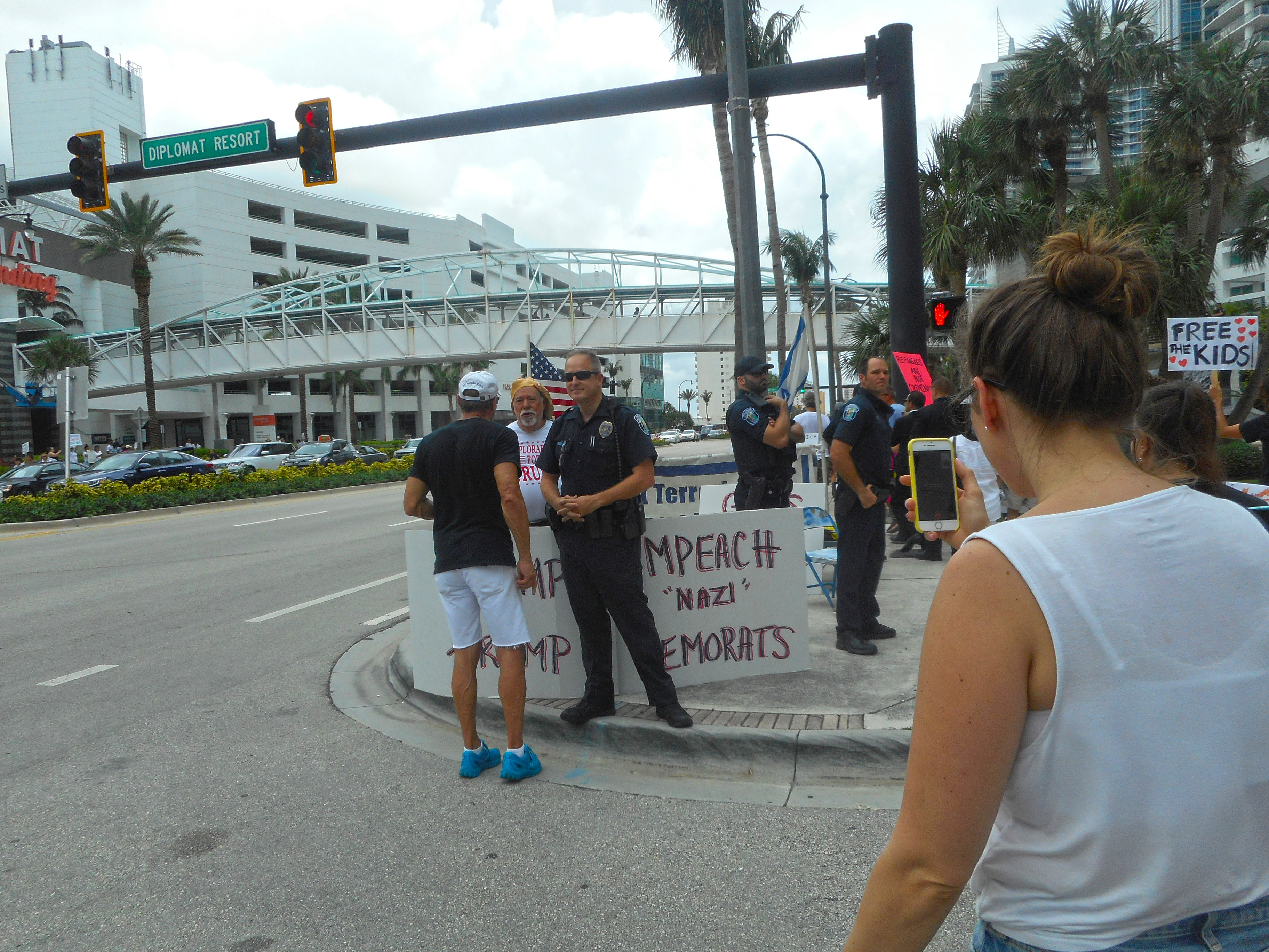 Lone Trump supporter being confronted by a protester at Anti Trump Family Separation Immigration Policy Protests Diplomat Hotel Hollywood Florida June 30 2018. Sings read "Gays for Trump", "Impeach Nazi Demorats".